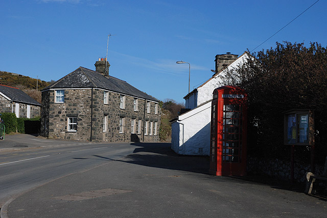 Houses and telephone box, Rhoslefain Situated at the junction of several minor roads with the A493 main road, the village is a mixture of older houses like these together with a group of council houses.